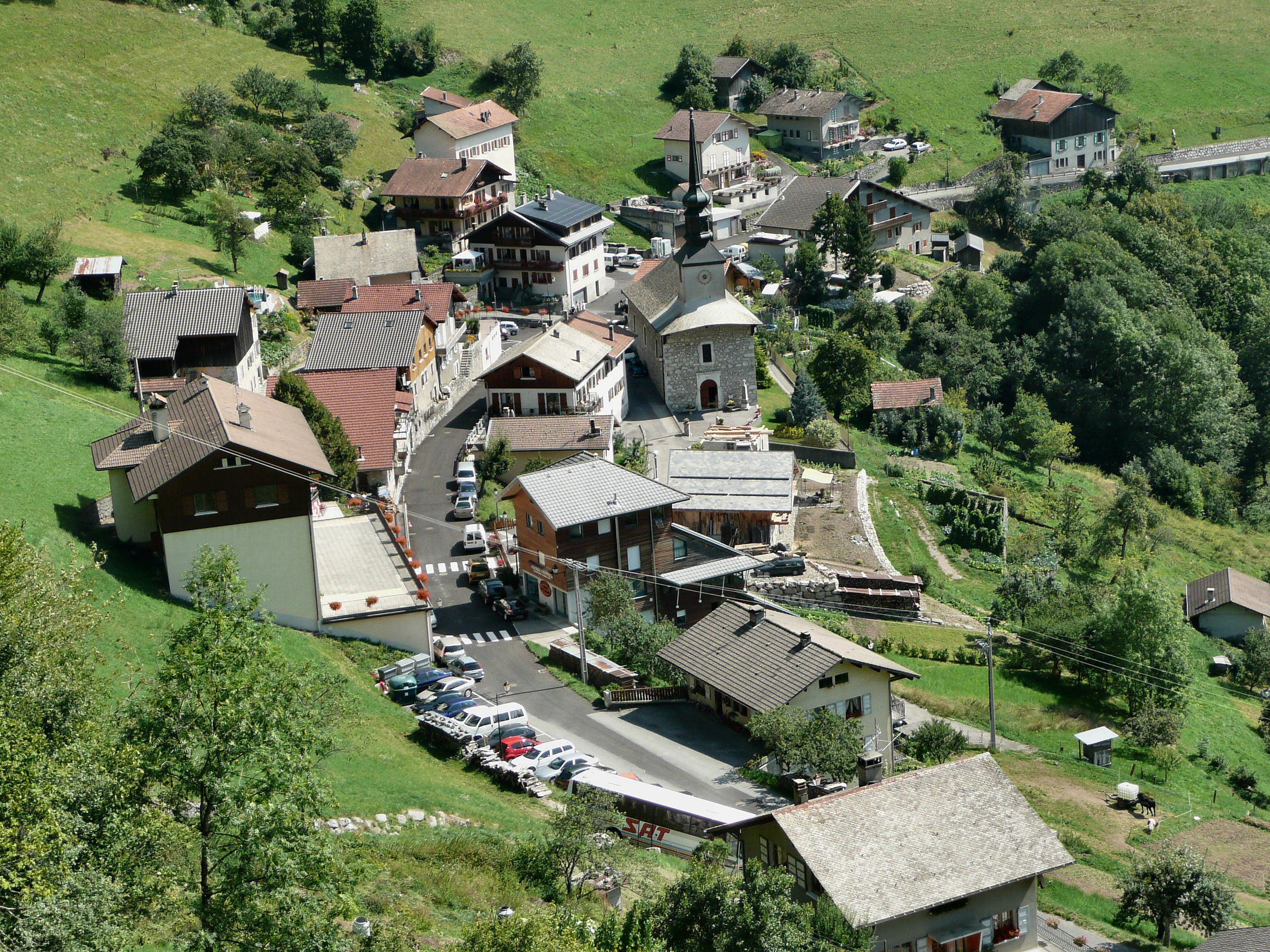 Sight of La Forclaz, since the road leading to the Grand Taillé Pass